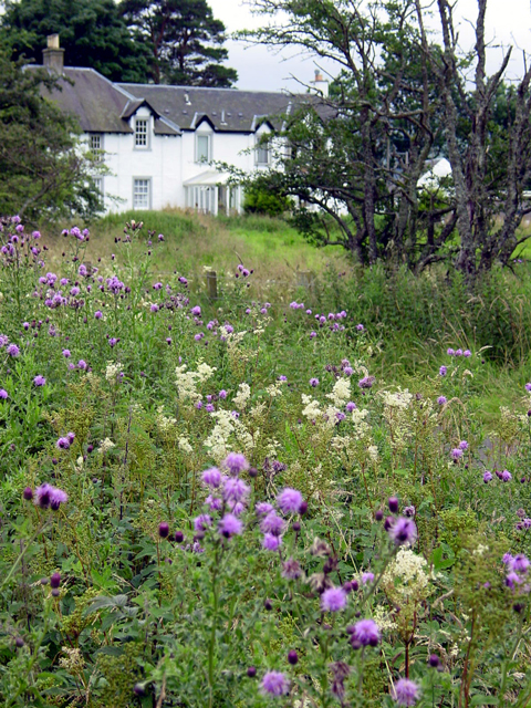 Tibbie Shiels Inn. The Inn takes its name from Isabella (Tibbie) Shiel who moved with her husband Robert Richardson, a mole catcher, in 1823 into what was then known as St. Mary's cottage on the estate of Lord Napier.